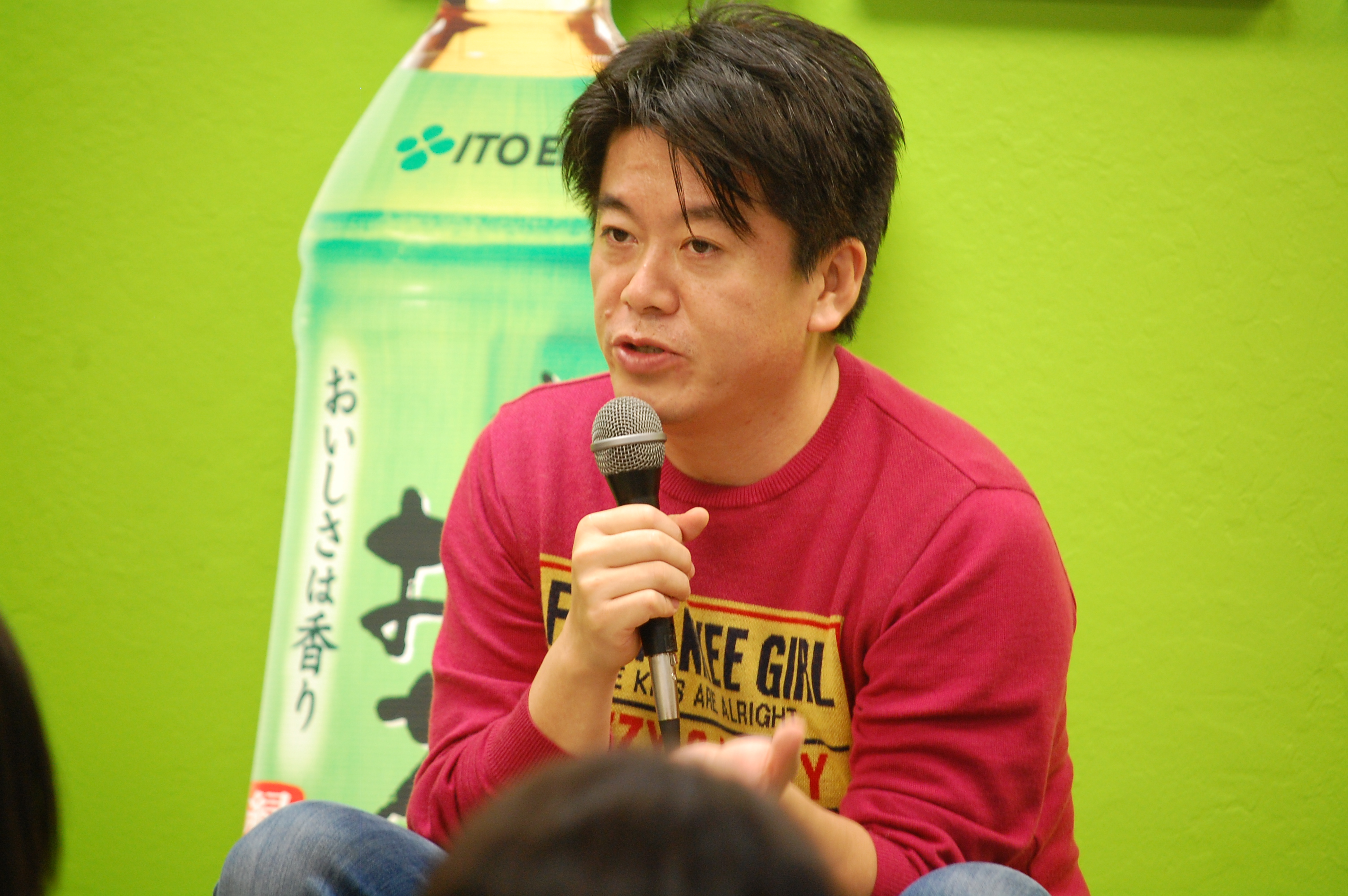 Zen Square Scrum Ventures Nifty San Francisco event